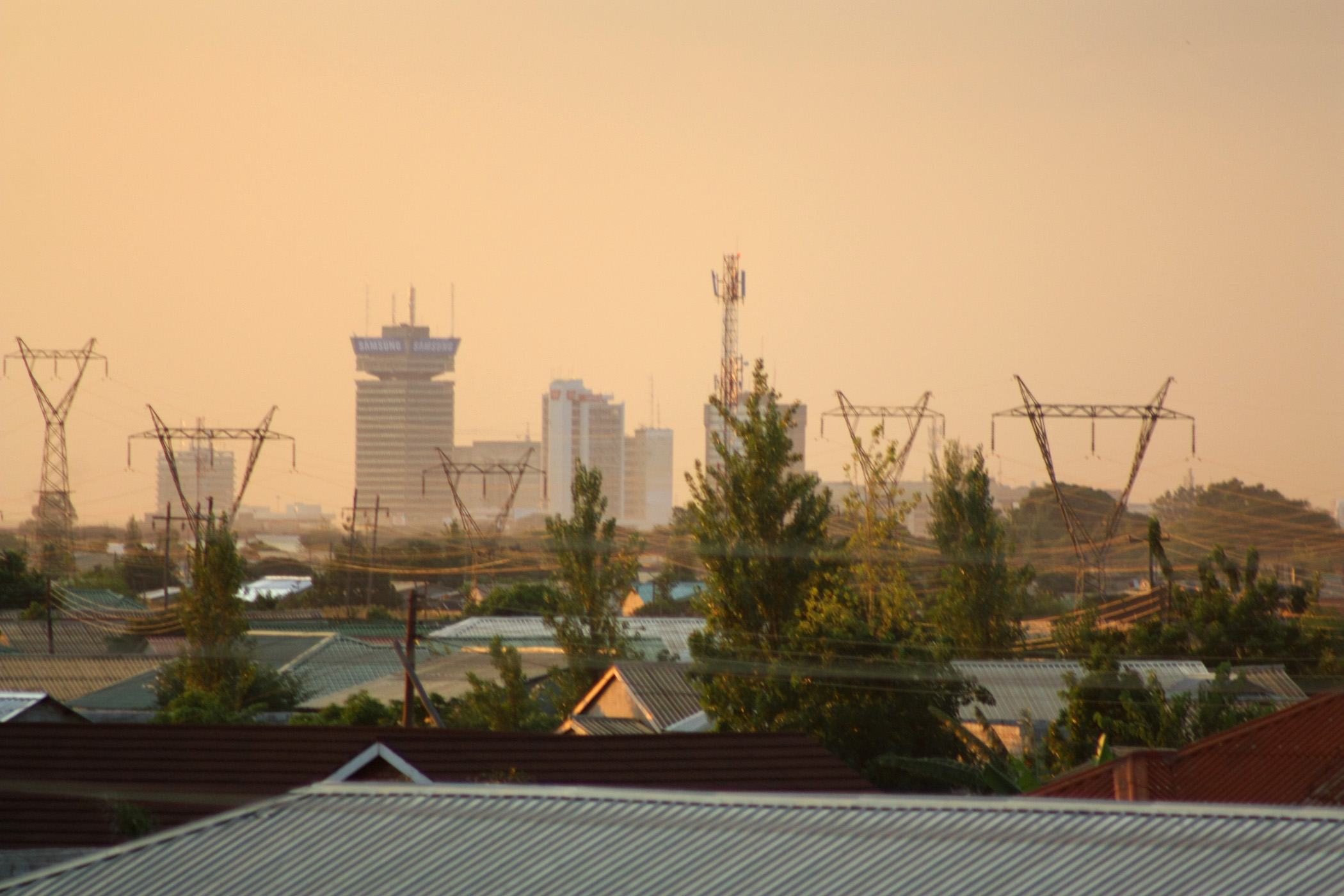 Lusaka at dusk